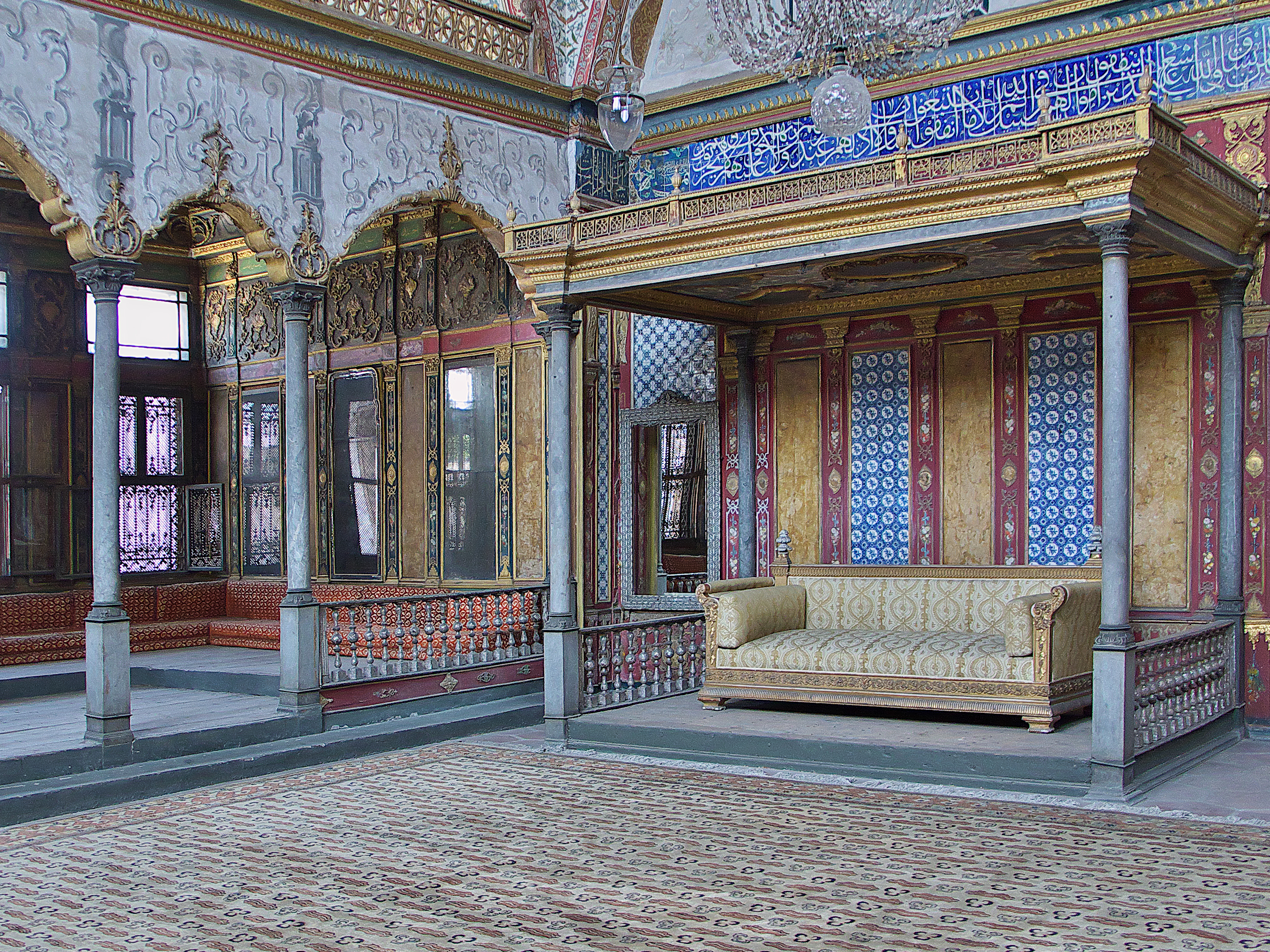 The Imperial Hall